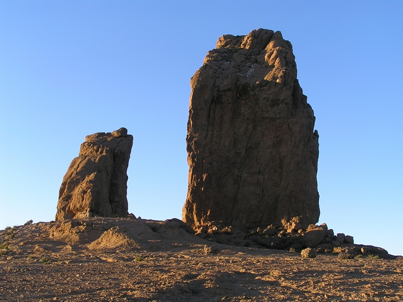 Roque Nublo, Symbol of the Gran Canaria, Spain